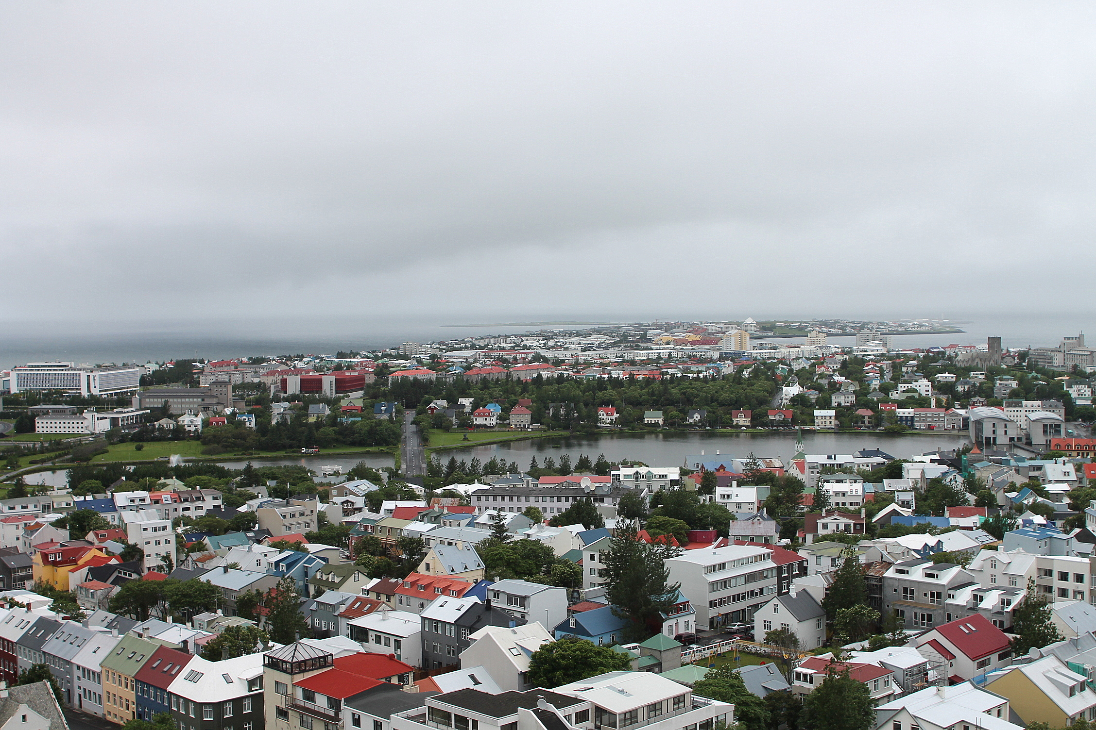 A view of Reykjavík from the top of Hallgrímskirkja, depicting buildings and the lake Tjörnin